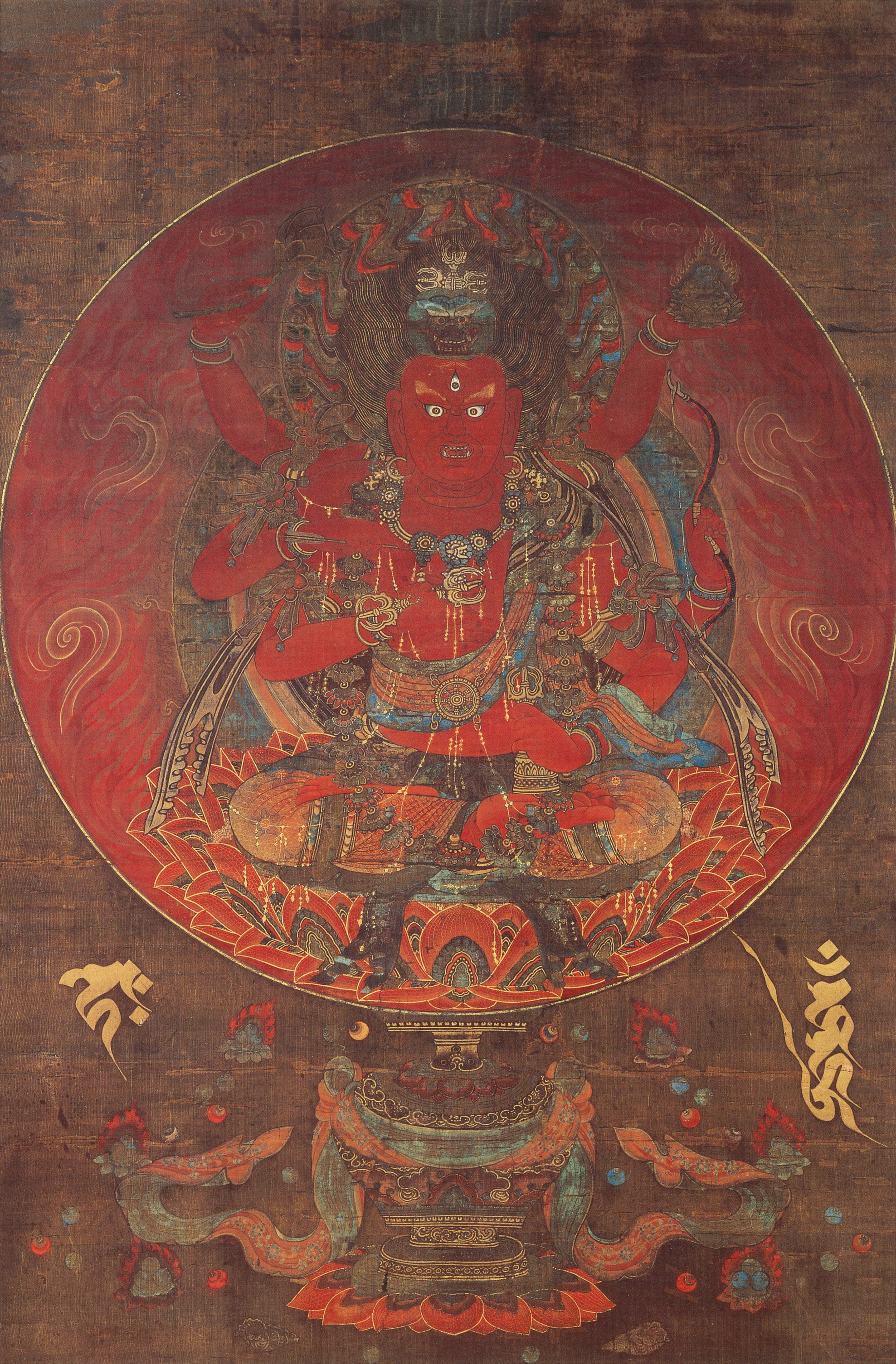 Aizen Myoo, MOA Museum of Art, Atami, Shizuoka, Japan